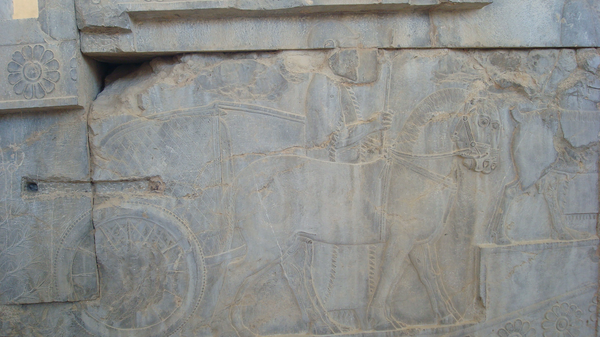 persepolis